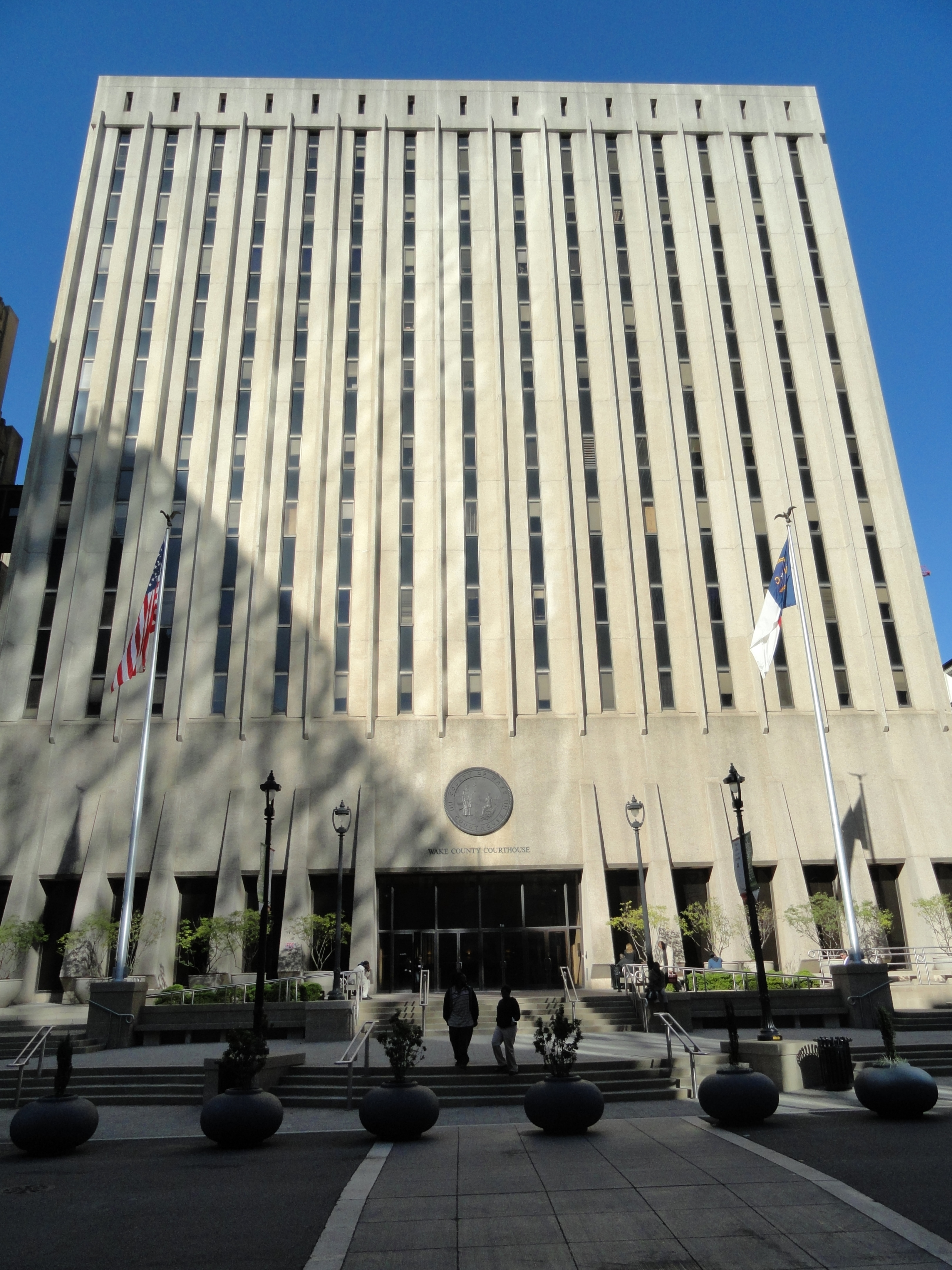 Building in Raleigh, North Carolina, USA.